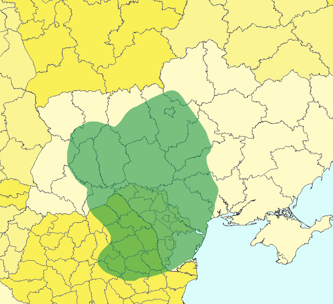 The maximal extent of settlements associated with the Cucuteni-Tripol'ye archaeological complex during all periods (c. 4800-3000 BC). Also shown are modern provincial borders, illustrating how the territory covers all of Moldova plus parts of Ukraine and Romania. Original description by uploader:[1] "It is drawn from a n=2600 dataset of Cucuteni-Tripol'ye sites, identical to the data shown in the maps published in Manzura 2005 ("Steps to the Steppe"), if you'd like to read an article that addresses some of these large-scale spatial issues." Igor Manzura, “Steps to the Steppe: Or, How the North Pontic Region was Colonized,” Oxford Journal of Archaeology XXIv.4 (2005), pp. 313–338. [which page?]